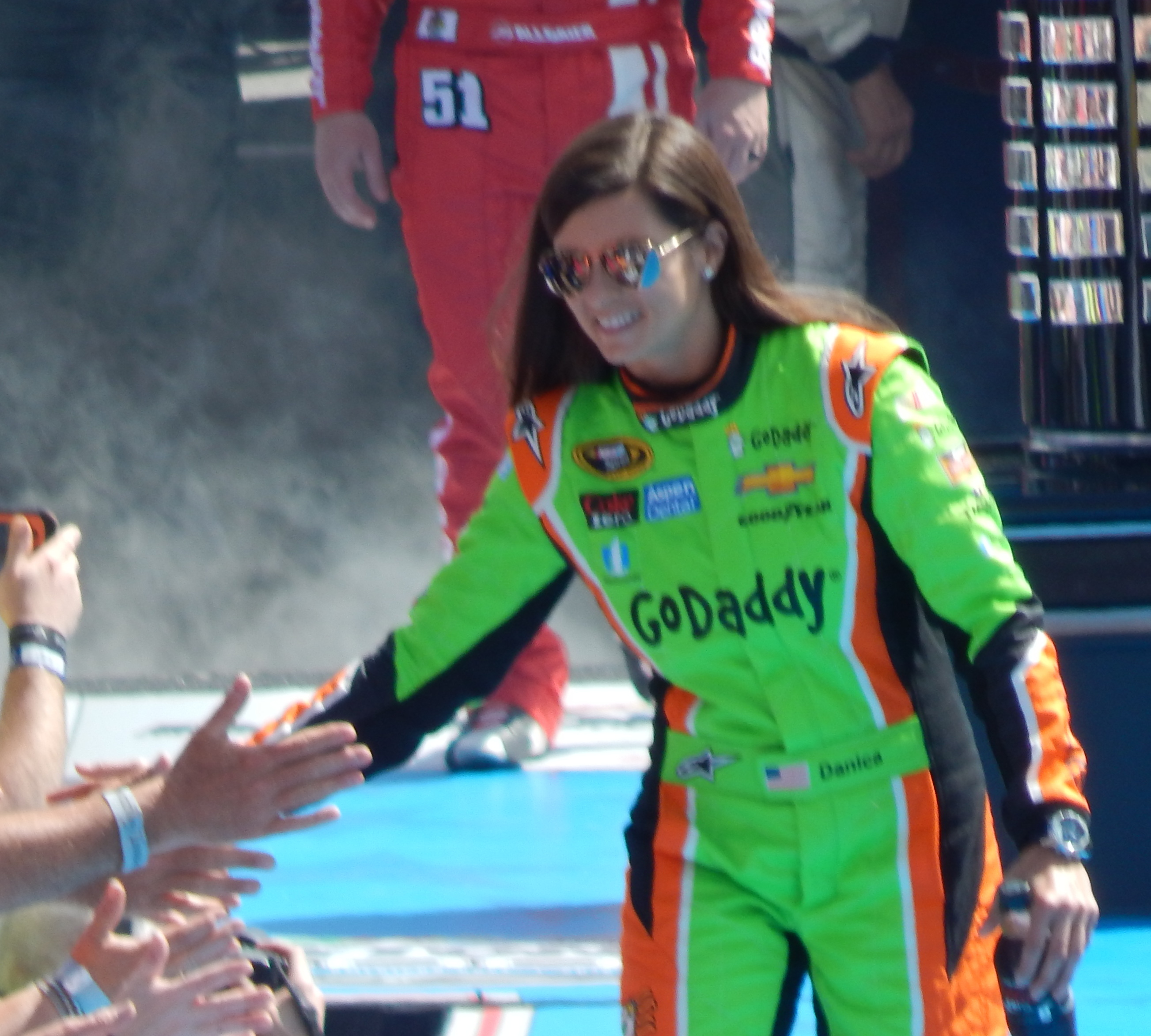 Danica Patrick being introduced at Daytona International Speedway.